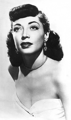 Publicity photo of actress Marie Windsor from the television show The Whistler.